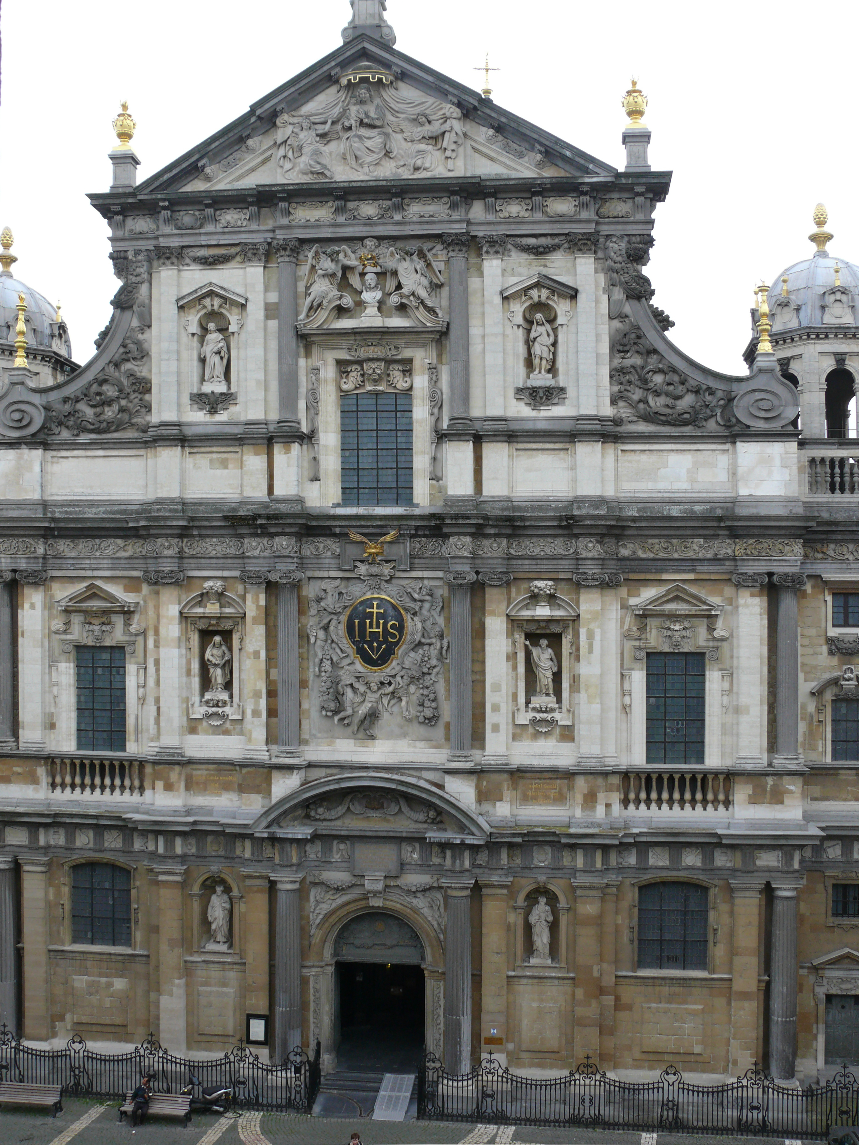 The Church of Carolus Borromeus (Carolus Borromeuskerk) at the Hendrik Conscienceplein in Antwerp, is a former Jesuit Church in baroque style. The church was designed by fathers Franciscus de Aguilon s.j. and Pieter Huyssens s.j. The church was bult between 1615 and 1521. First dedicated to Ignatius de Loyola, then in 1773, after the suppression of the Jesuit Order, renamed to the church of Charles Borromeo. Since 1803 it has been a parish church. The church is a typical product of the Counter-Reformation in which the Catholic Church tried to regain the confidence of the people with much pomp. The Jesuits were the spearhead of this movement. The facade of the church is inspired by Serlio's books on Architecture. The Church boasted numerous paintings and ceiling paintings by Rubens which were unfortunately destroyued during a fire in 1718. After the fire the church was given a more sober interior.